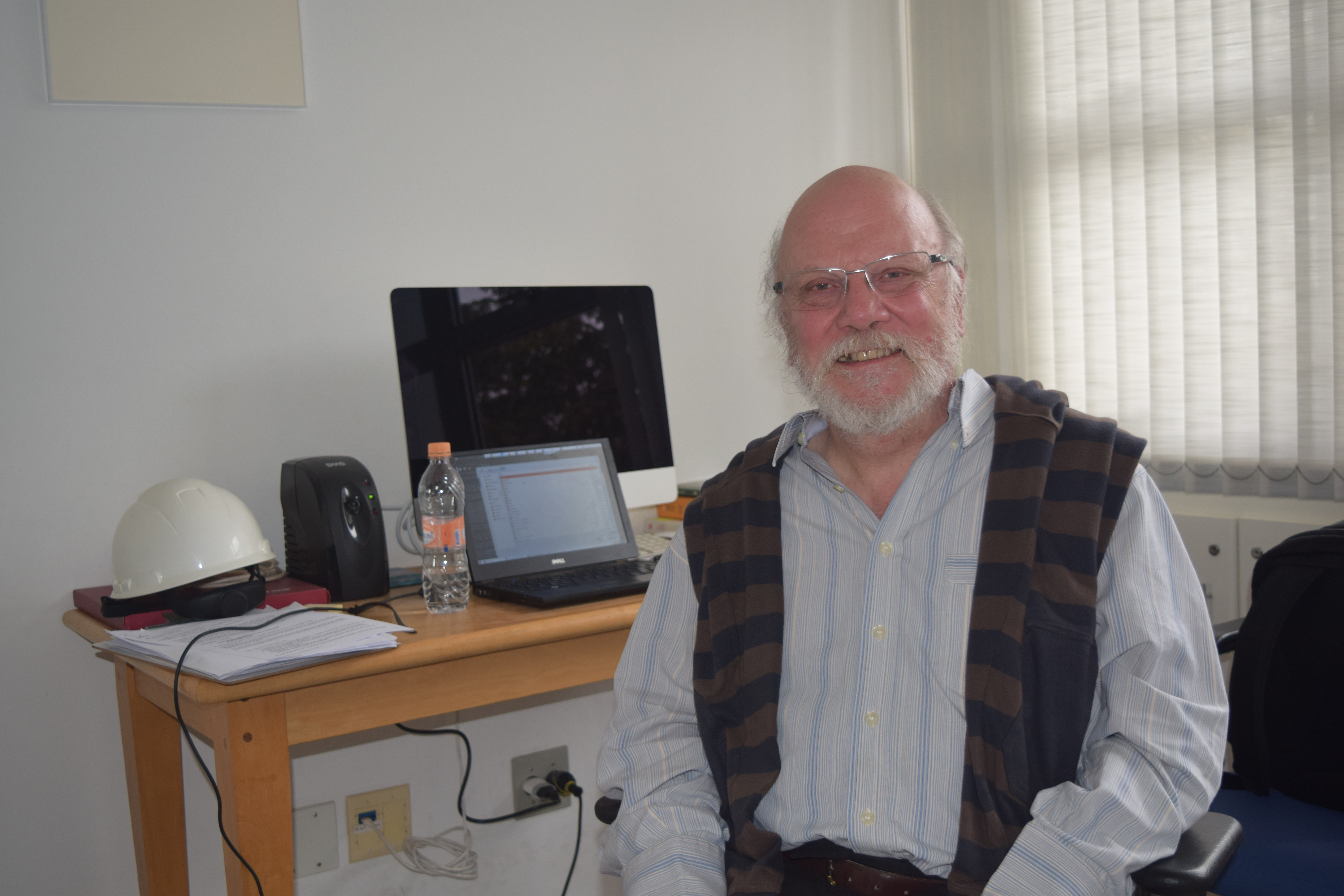 French mathematician Pierre Collet visiting NeuroMat in August 2016.